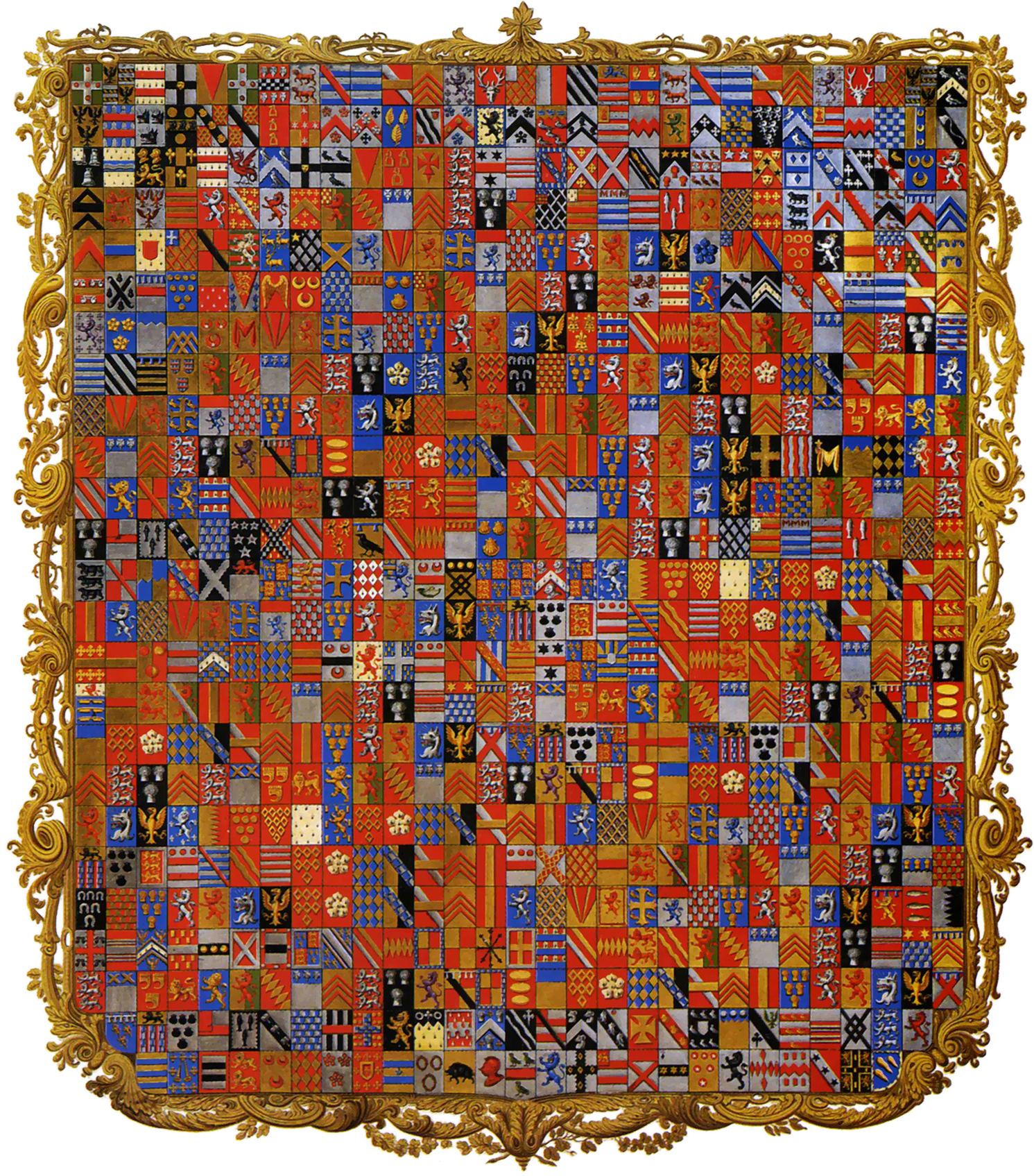 The Stowe Armorial coat of arms is the centrepiece of the Gothic Library at Stowe [1]. The Library was commissioned by George Nugent-Temple-Grenville, 1st Marquess of Buckingham (See Viscount Cobham [2]), and built to a design by Sir John Soane [3] between 1805 and 1807. The armorial is a 1.4m diameter heraldic painting of the 719 quarterings of the Temple, Nugent, Brydges, Chandos and Grenville families, including ten variations of the English Royal arms, the arms of Spencer, De Clare, Valence, Mowbray, Mortimer and De Grey. The painting is signed and dated P. Sonard 1806. [1]